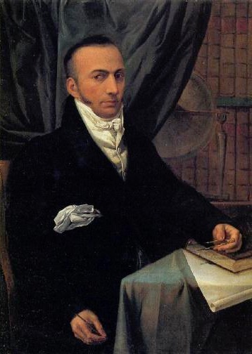 Niccolo' Cacciatore (1770-1841)